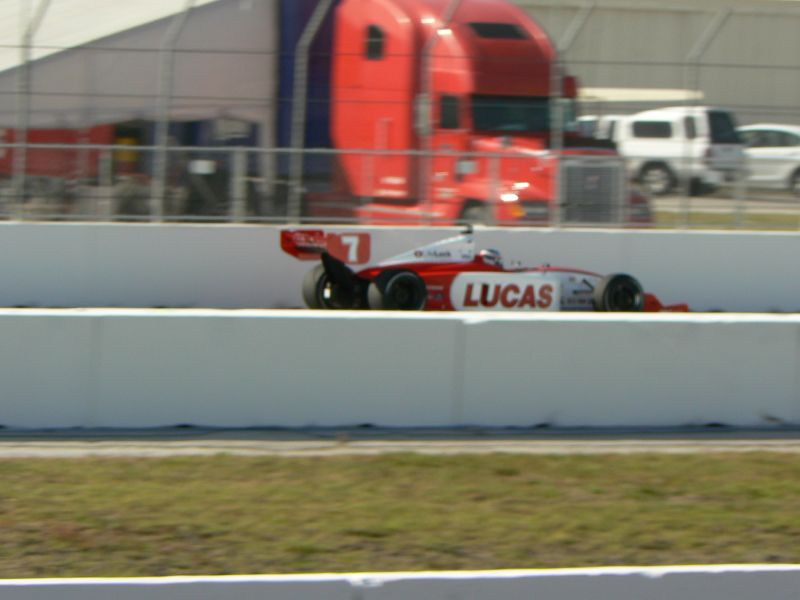 Richard Antinucci practicing in his Indy Lights car at St. Petersburg in 2008.